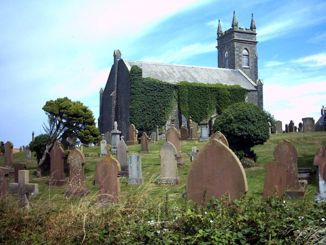 Stoneykirk church, Dumfries and Galloway, Scotland, and old graveyard